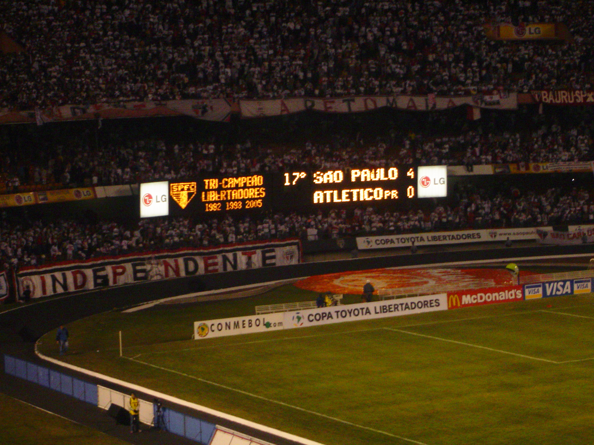 match of Liberators Cup of 2005 between São Paulo and Atlético Paranaense in Cícero Pompeu de Toledo stadium, known as Morumbi. The game ended with São Paulo victory by 4 to 0. View of the São Paulo supporters.